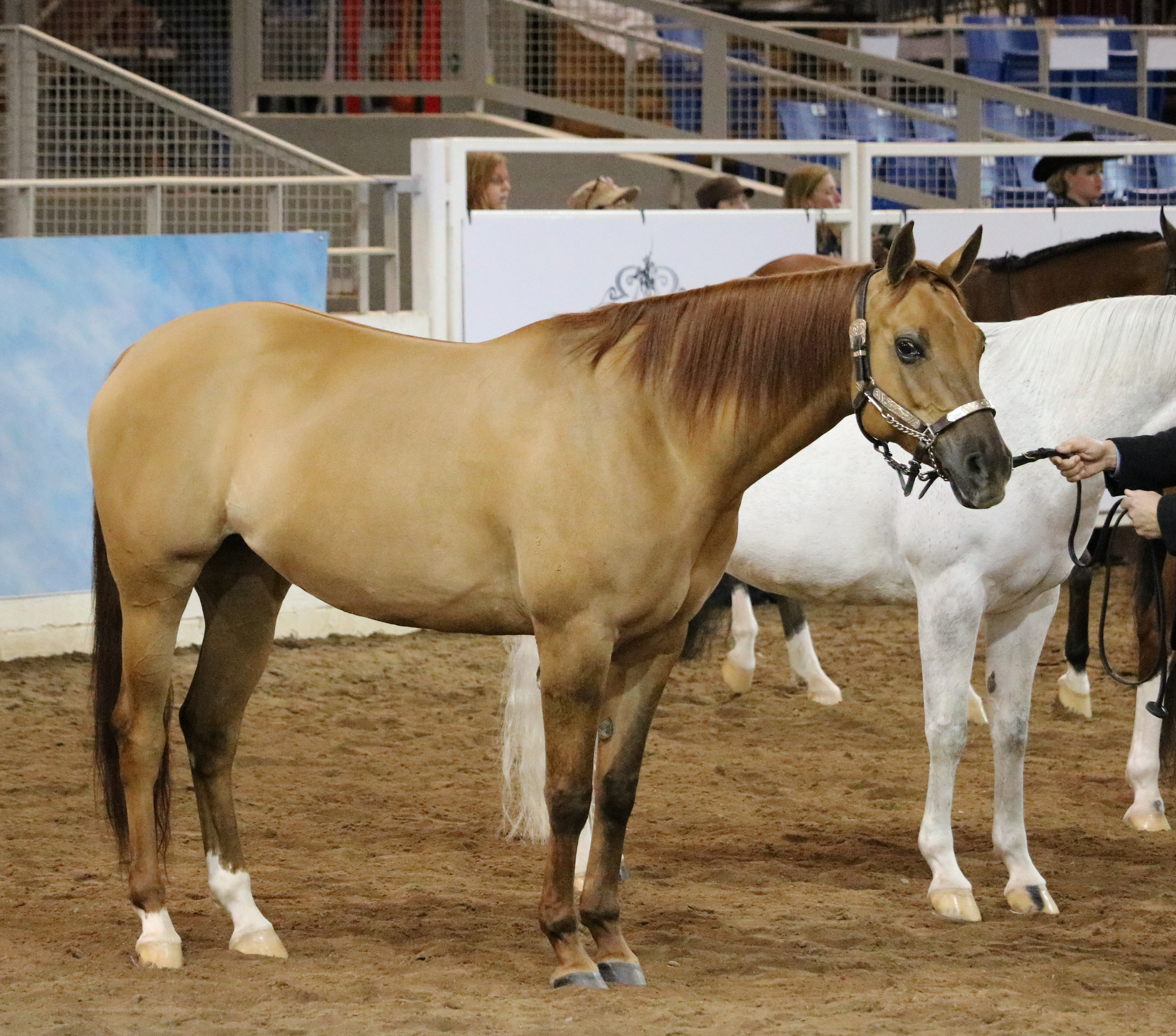 Adult Showmanship class at Scottsdale Arabian Show, 2017. Horse turned out in western style